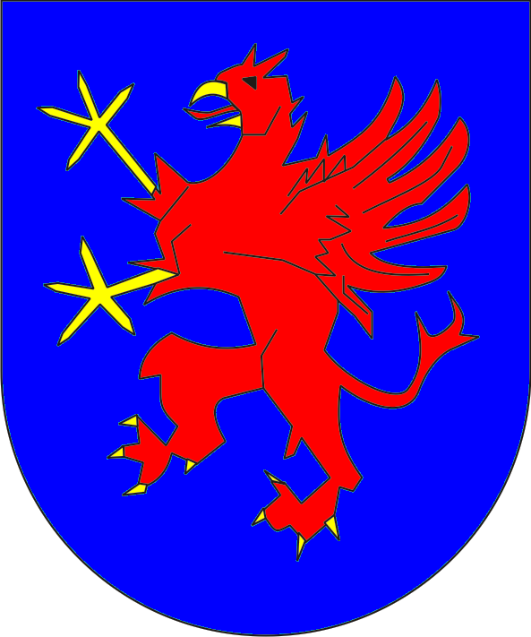 coats of arms of the duchy of Stettin